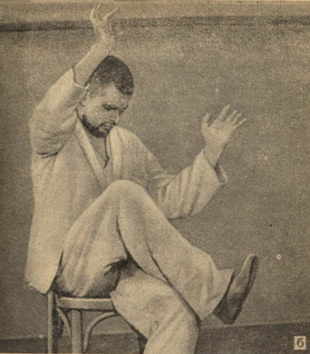 Сatatonic stupor